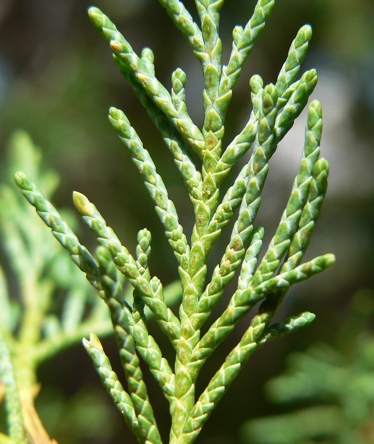 Juniperus scopulorum near the North Loop trail, Spring Mountains, southern Nevada (elev. about 2600 m)